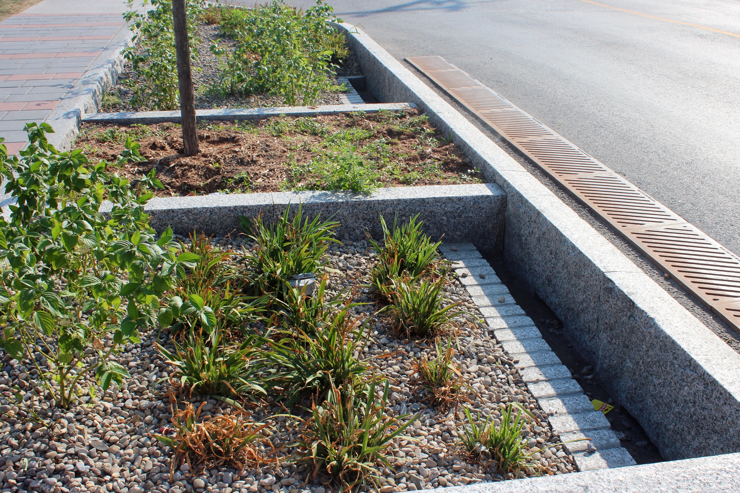 New retention basin on Paré Street, Montreal.